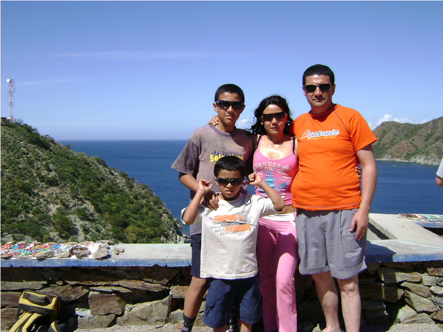 juan david rubiano lazaro